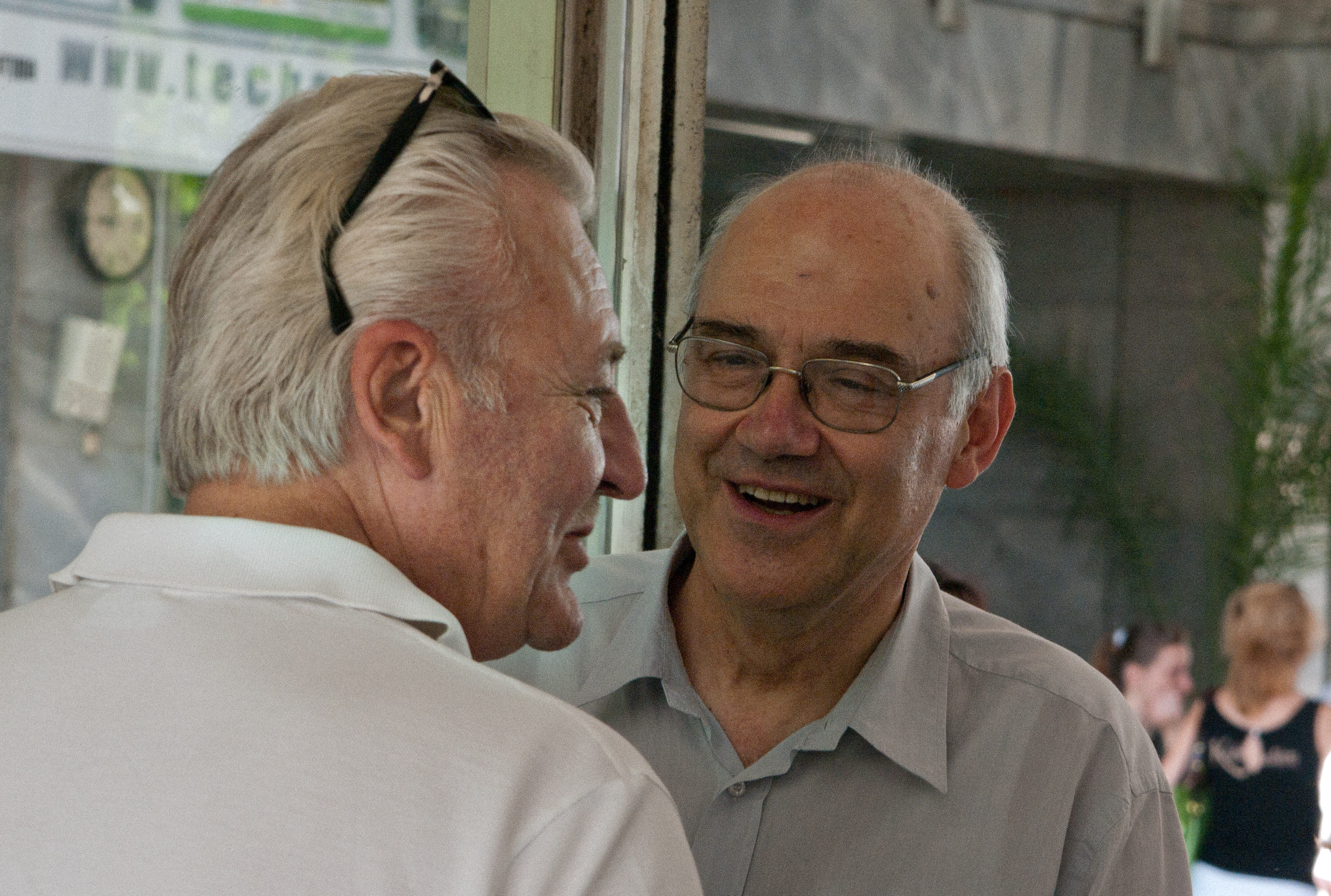 Bulgarian politicians from Democrats for a Strong Bulgaria Ivan Ivanov (right) and Asen Agov.